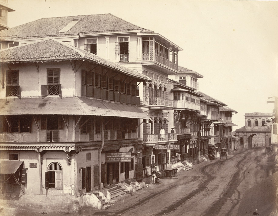 Photograph of a street in Bombay (Mumbai), Maharashtra, by an unknown photographer, from an album of 40 prints taken in the 1860s. The view taken in the Bombay Fort area in the centre of the business district of Bombay looks along a street lined with commercial premises, including Favre Brothers (jewellers and watch-makers) and the Bombay Times and Standard office in foreground. Bombay, one of the key cities of India, is a major port, busy manufacturing centre and capital of Maharashtra. During British rule, it was the administrative capital of the Bombay Presidency. It extends over a peninsula jutting into the Arabian Sea on the west coast of India. Originally a collection of fishing villages of the Koli community built on seven islands, Bombay was by the 14th century controlled by the Gujarat Sultanate who ceded it to the Portuguese in the 16th century. In 1661 it was part of the dowry brought to Charles II of England when he married the Portuguese princess Catherine of Braganza. The British built up fortifications around Bombay harbour in the 17th century around the original Portuguese settlement. In the 1760s the fortifications were enhanced as the British were engaged in war with France in both Europe and India. By the 19th century the British had established control over India and the fort walls were torn down and the area converted into the central district of Bombay city.